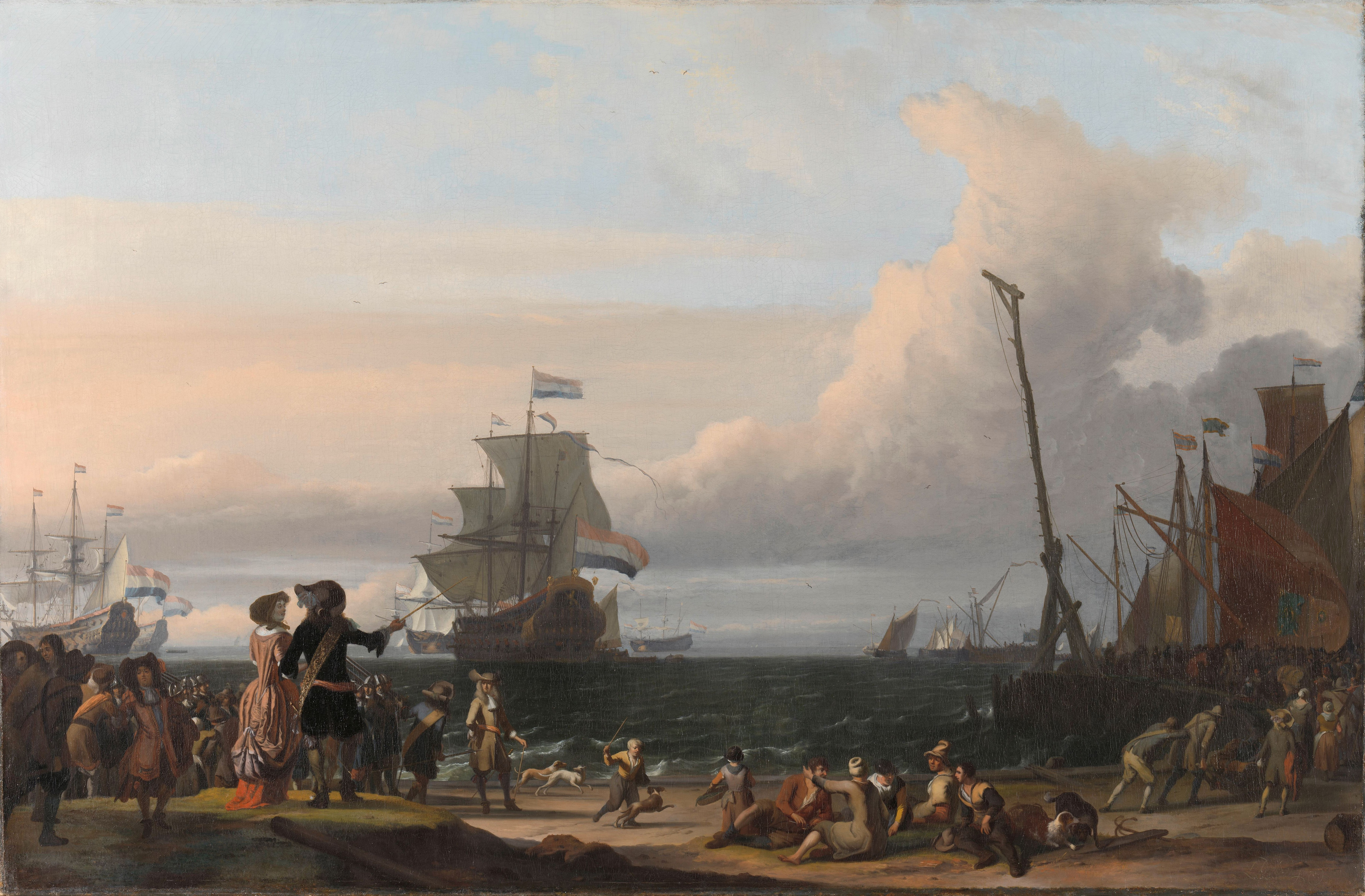 Dutch ships on the roadstead of Texel; in the middle the Gouden Leeuw, the flagship of Cornelis Tromp. On the foreground troops are being embarked.